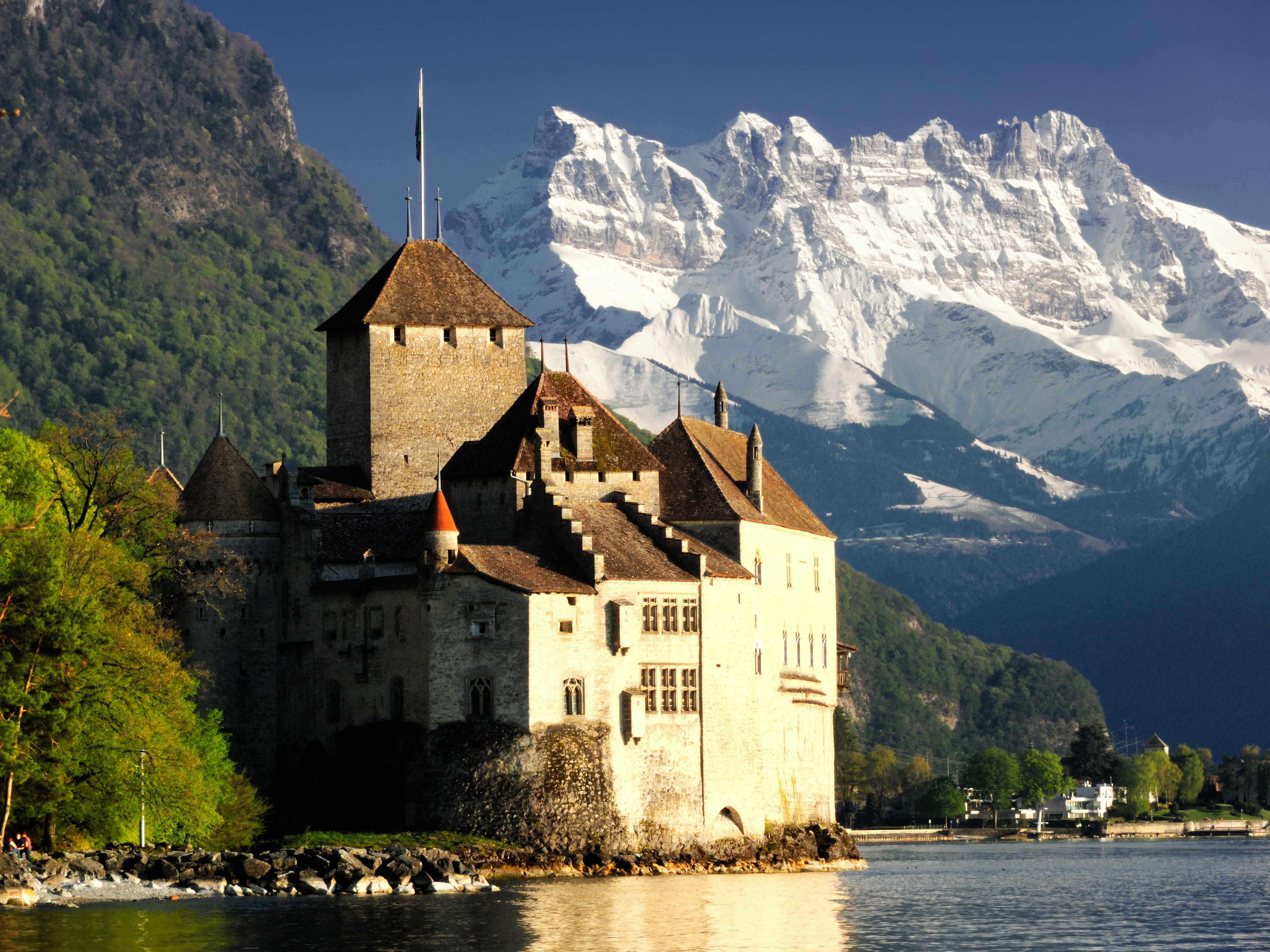 Chillon Castle and the Dents du MIdi